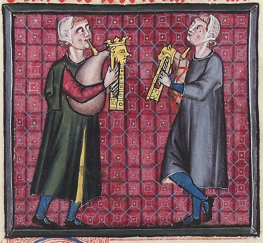 Illustration from Cantigas de Santa Maria manuscript. The Cantigas de Santa Maria (Songs to the Virgin Mary) are manuscripts written in Galician-Portuguese, with music notation, during the reign of Alfonso X El Sabio (1221-1284) and are one of the largest collections of monophonic (solo) songs from the middle ages.